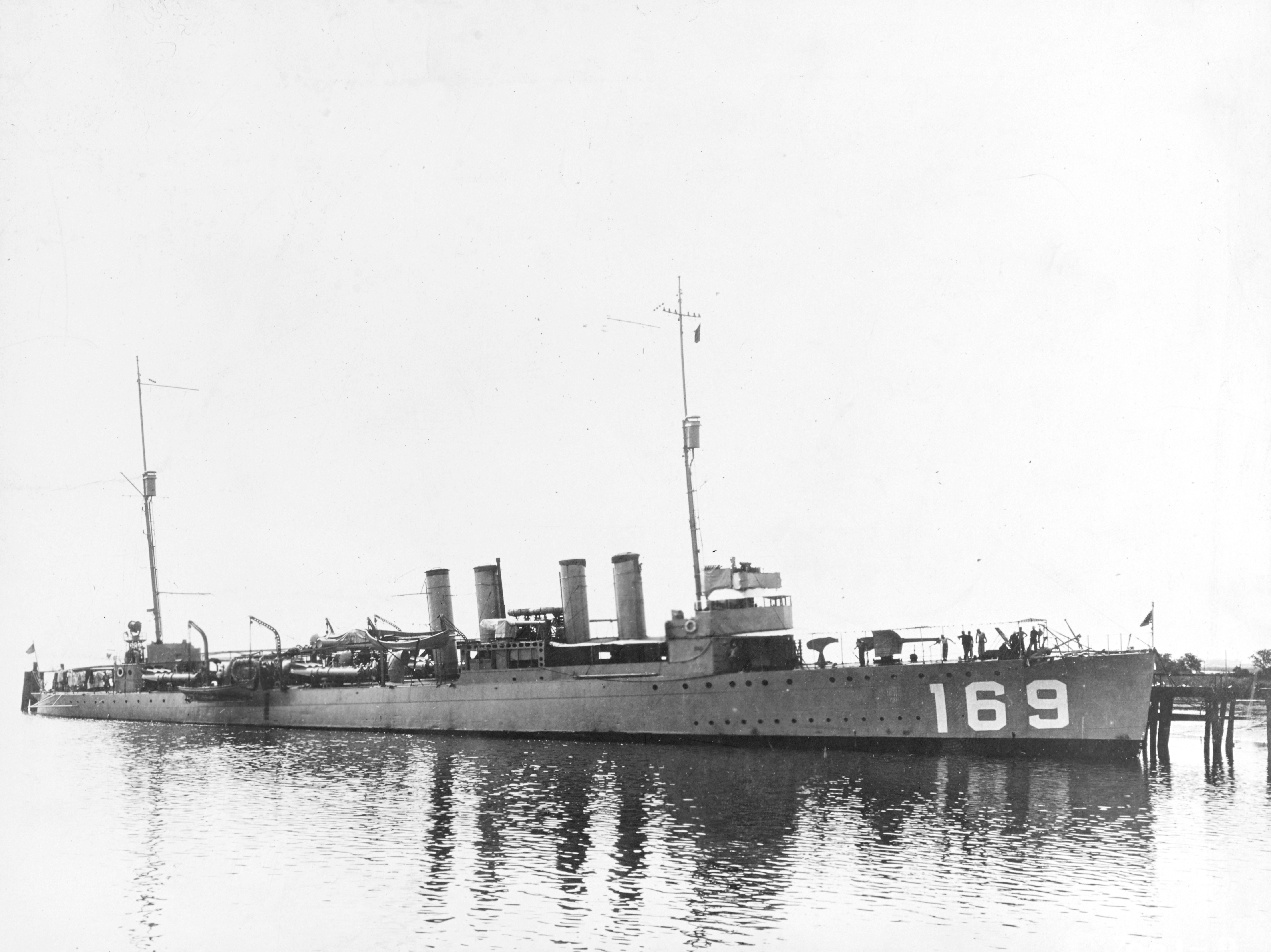 The U.S. Navy destroyer USS Foote (DD-169) in port, circa 1919-1921.